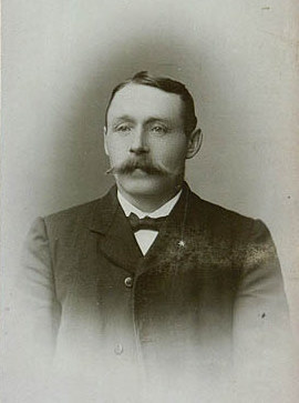 Carl Kristian Madsen (1873-1936), Danish farmer and politician, MP